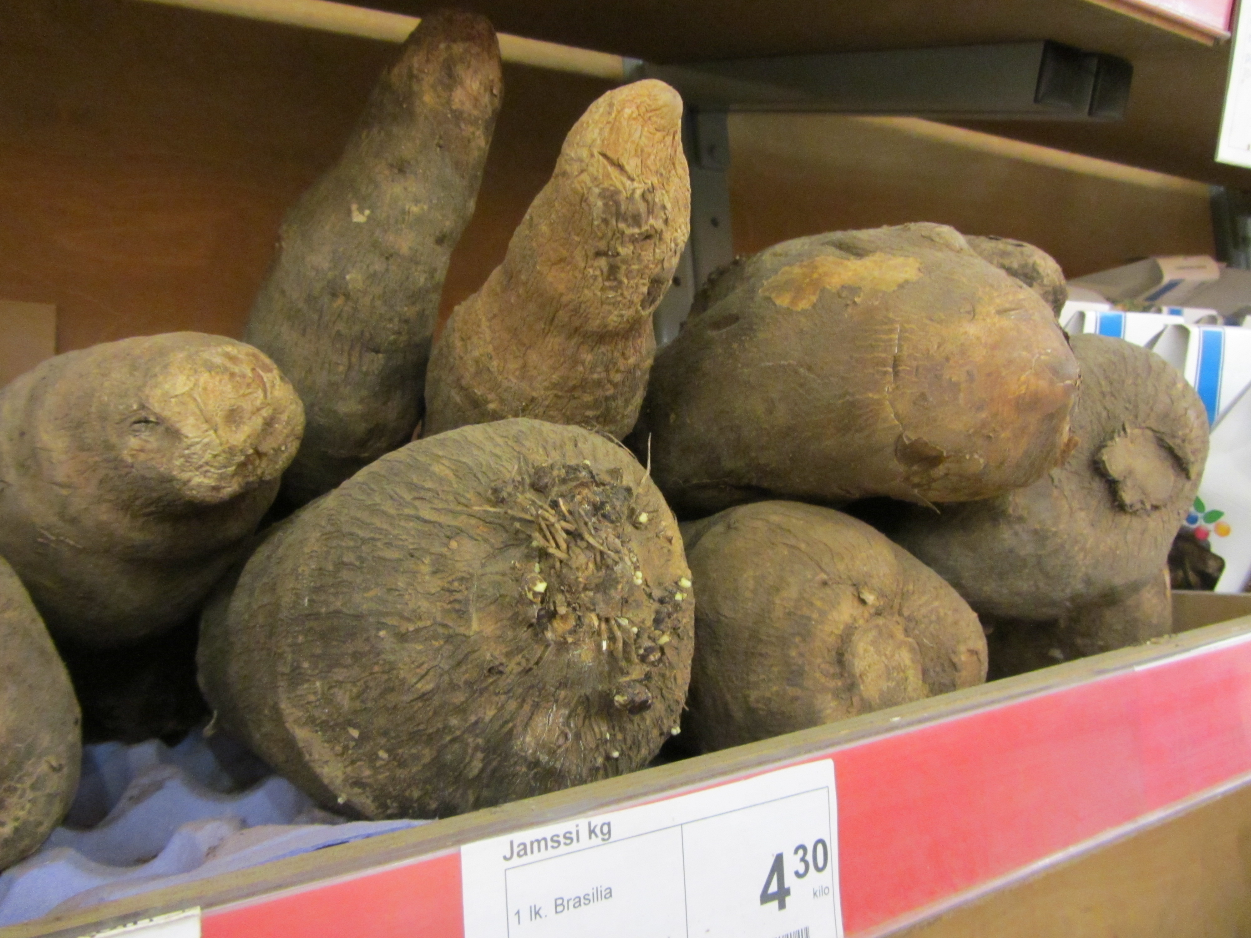 Yam from Brazil for sale in Kerava, Finland